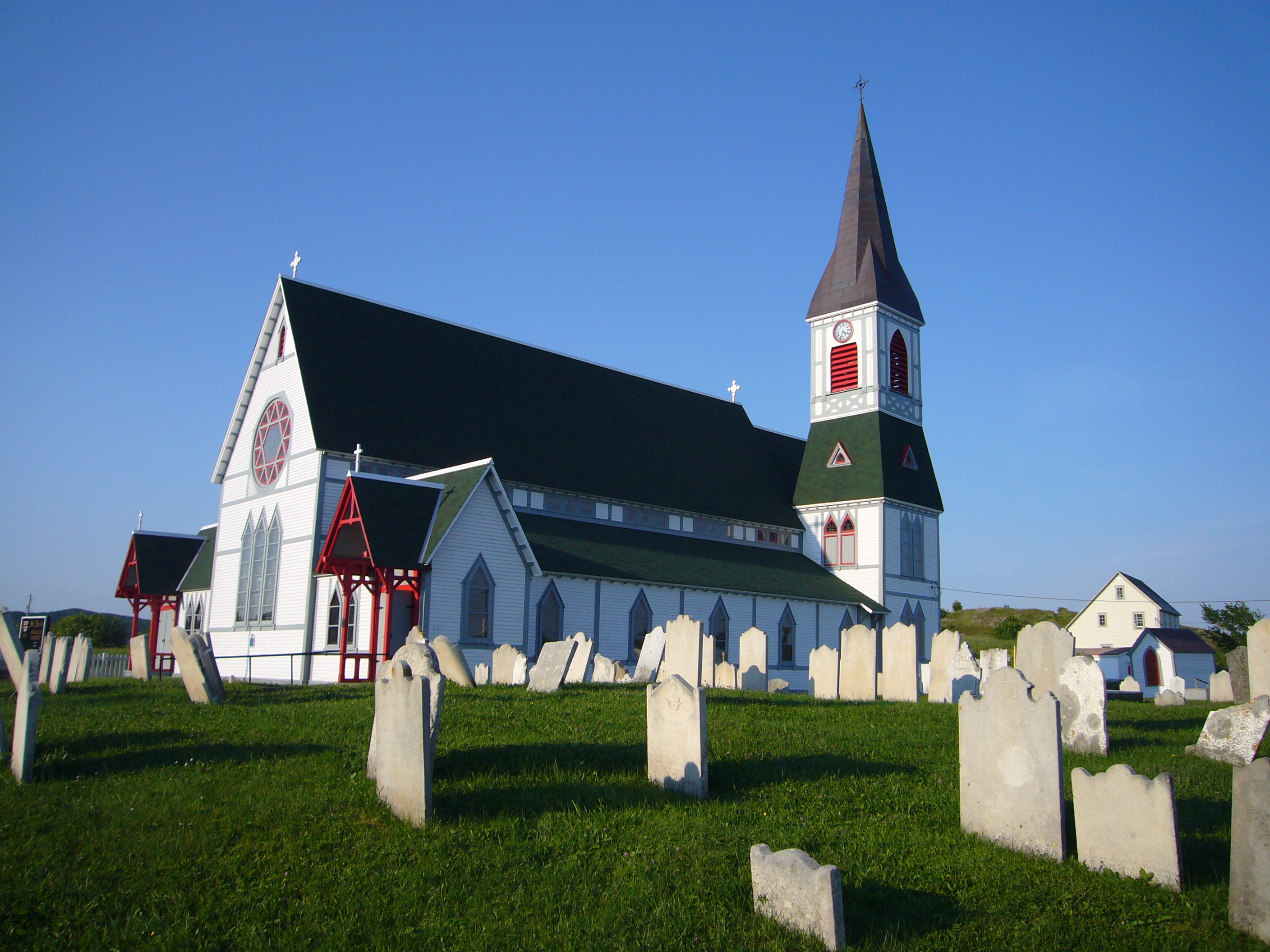 St. Paul's Anglican Church, Trinity, Newfoundland, Canada. Photo taken by User:Staib on 15 July 2007.